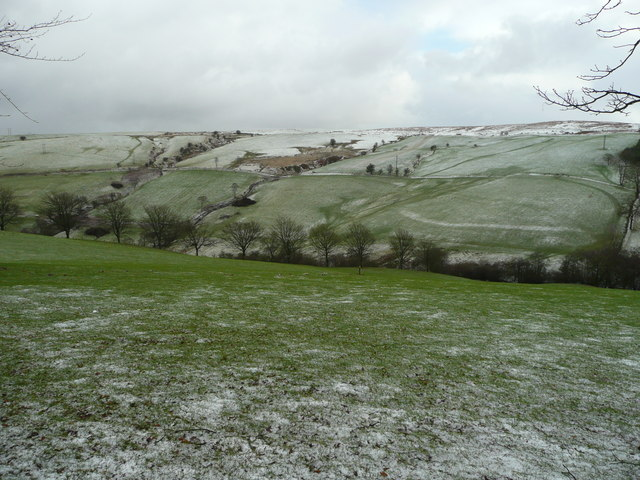 View east from Blaen Bwch Farm, near to Maesmynis, Powys, Great Britain. Looking over the Nant Bwch valley on a wintry morning.